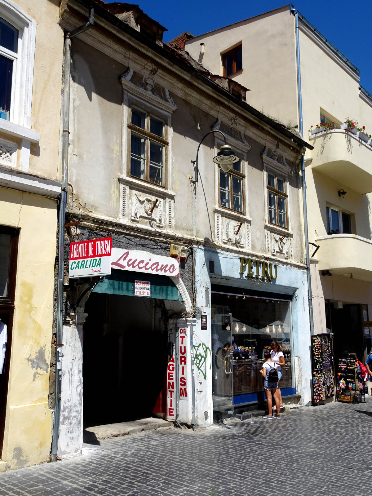 House on Republicii street, Brașov